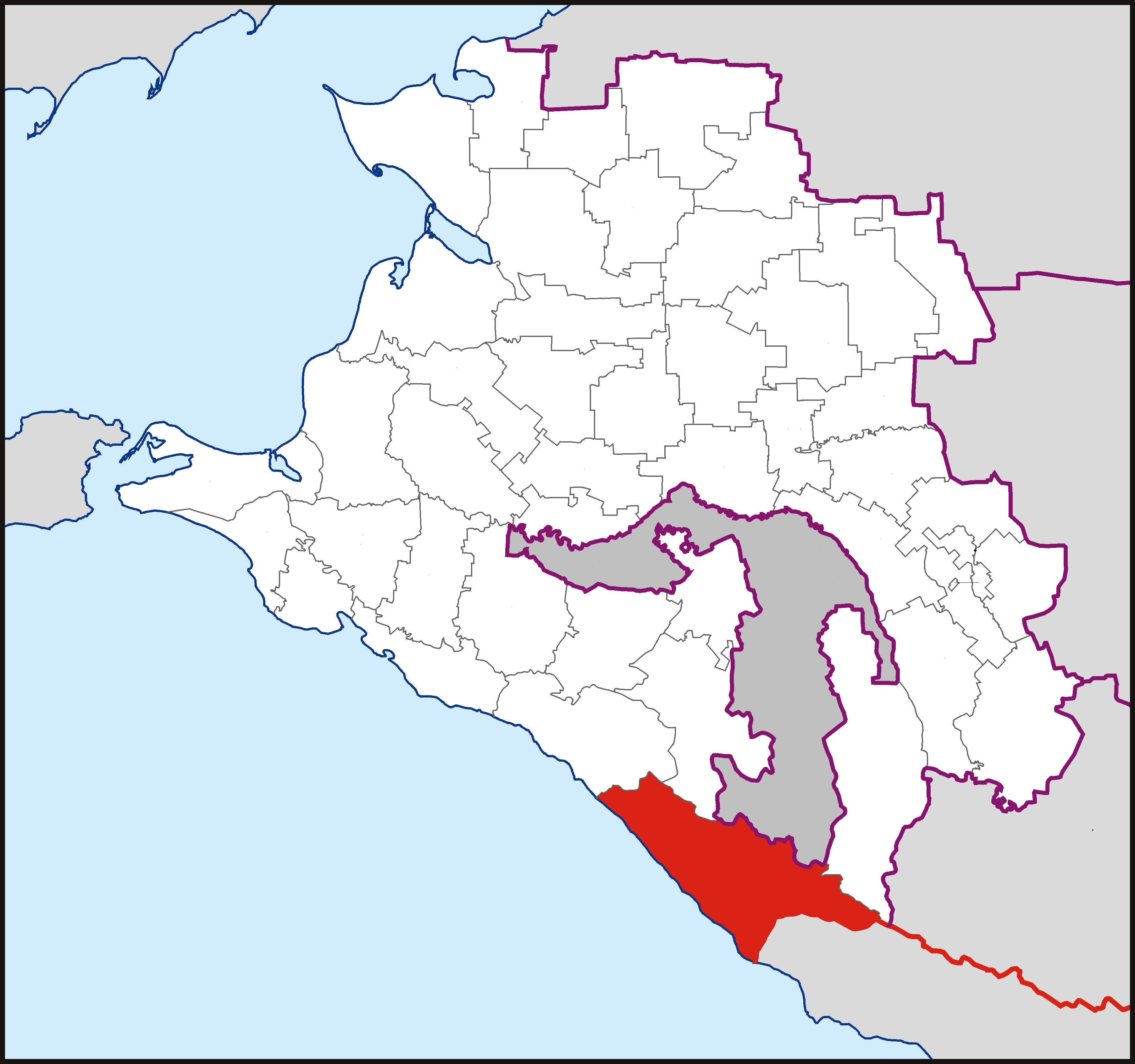 Locator map of Sochi District and city . Within southwestern Krasnodar Krai, on the east Black Sea coast, in far southwestern Russia.